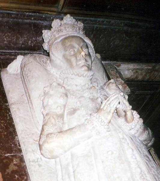 Queen Catherine of Sweden (née Jagellonica of Poland) as depicted on the sarcophagus of her grave sculpted by Willem Boy about 1580Place: Uppsala Domkyrka, Upsala, Sweden